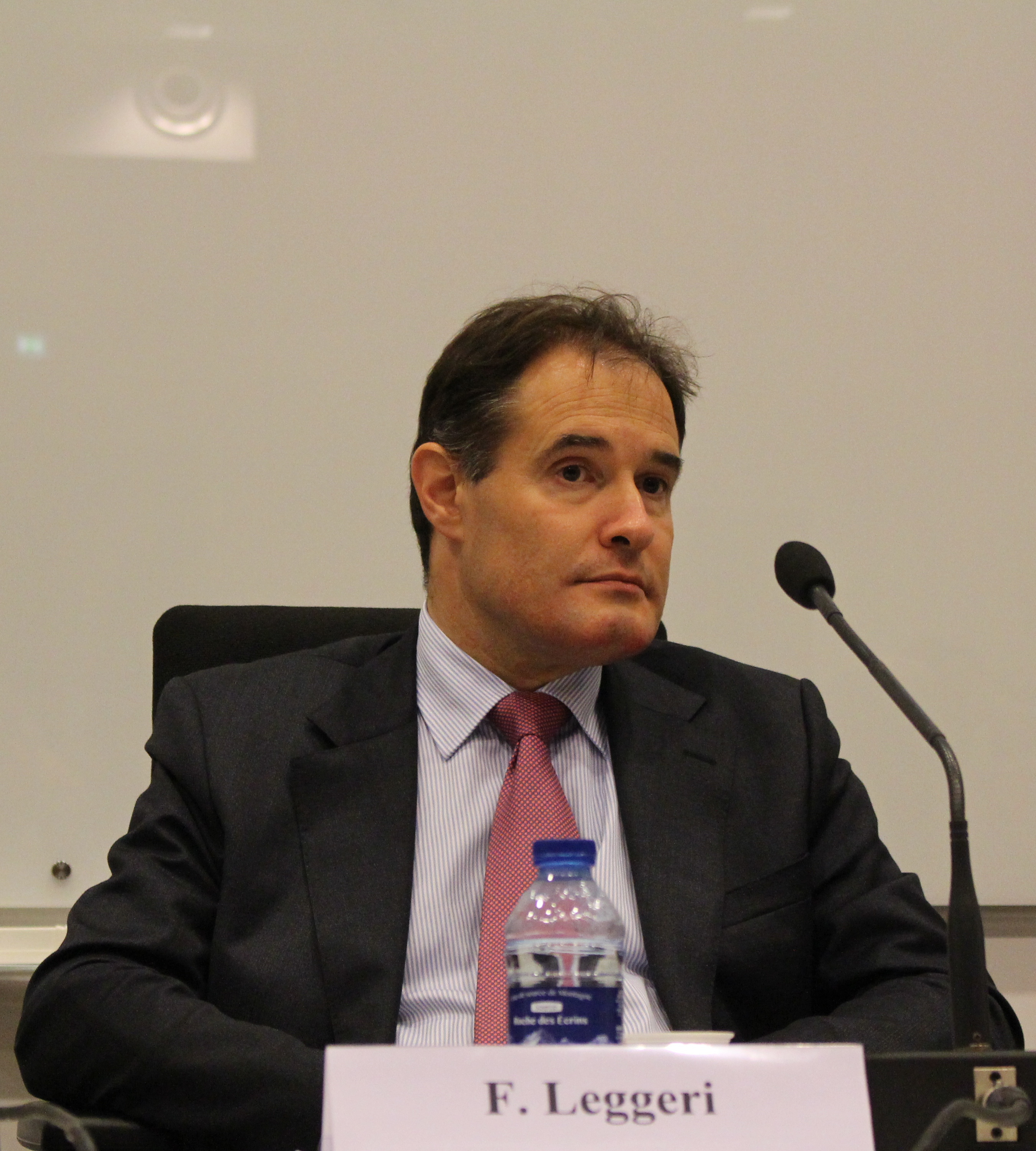 Fabrice Leggeri, Executive Director of the European Agency Frontex, at the 2015 Eurotémis conferences at Sciences Po Bordeaux.